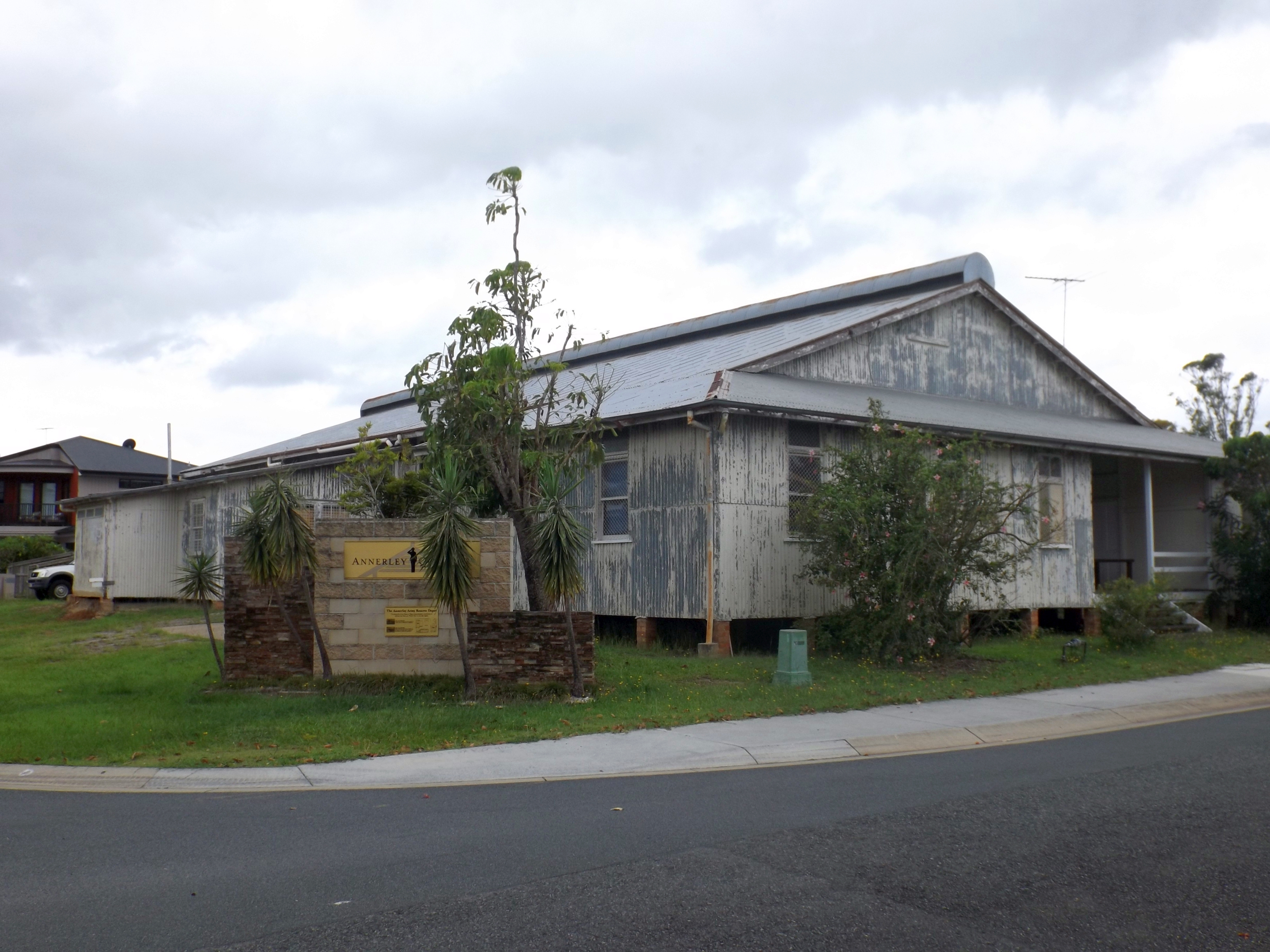 Photo of the Annerley Army Reserve Depot in Annerley, Brisbane, Queensland, Australia.